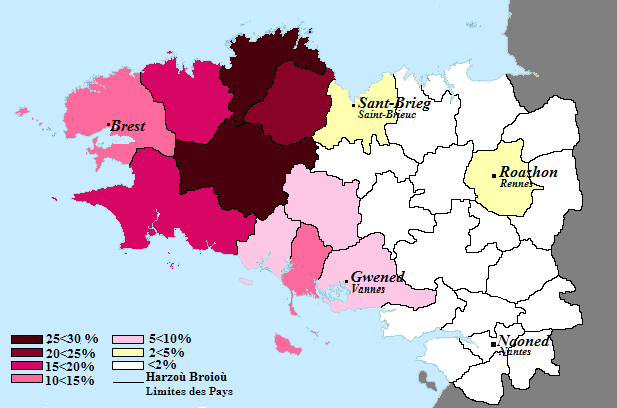 Linguistical map of the region of Bretagne, France, for statistic studies on breton language, with distinct boundaries for regions, in Breton and French.